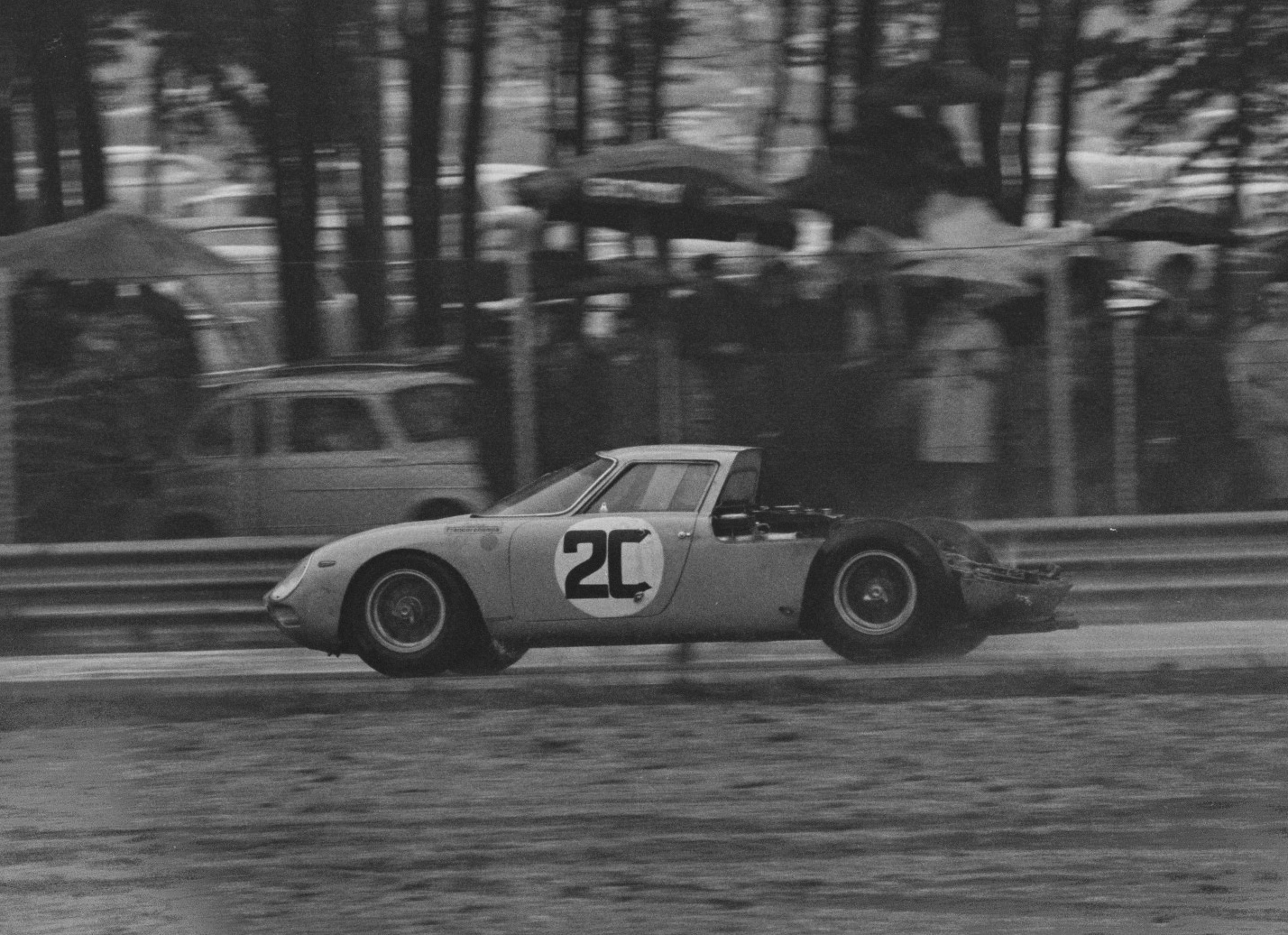 Entry #20 at 1000 km Monza on 25 April 1966 was the 1964 Ferrari 250 LM s/n 6023 driven by Pierre Noblet and Leon Dernier (they did not finish).[1]